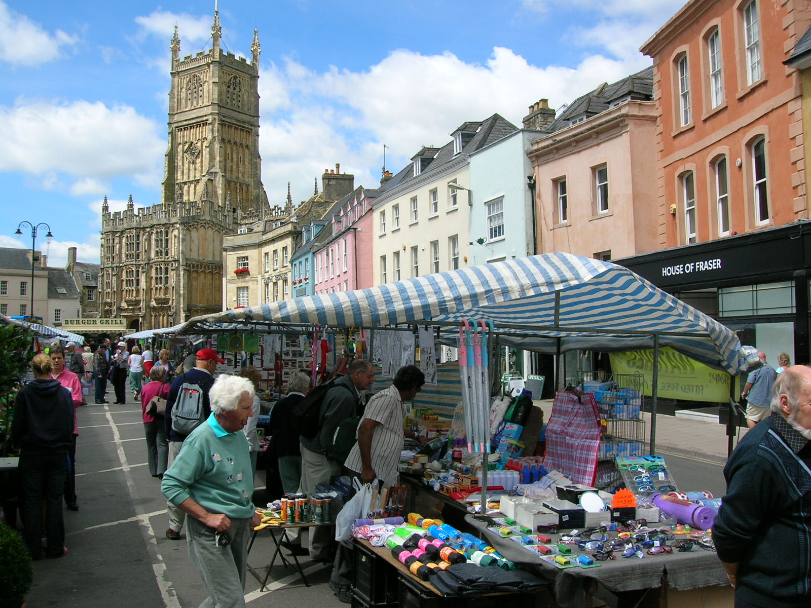 Cirencester, market place